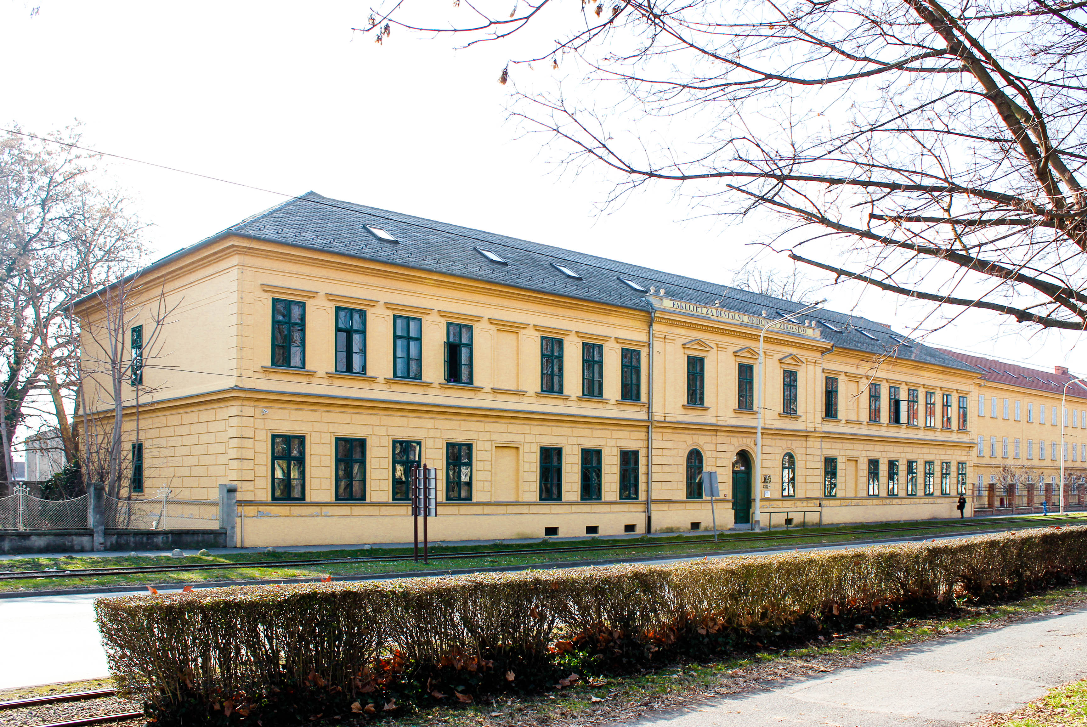 College